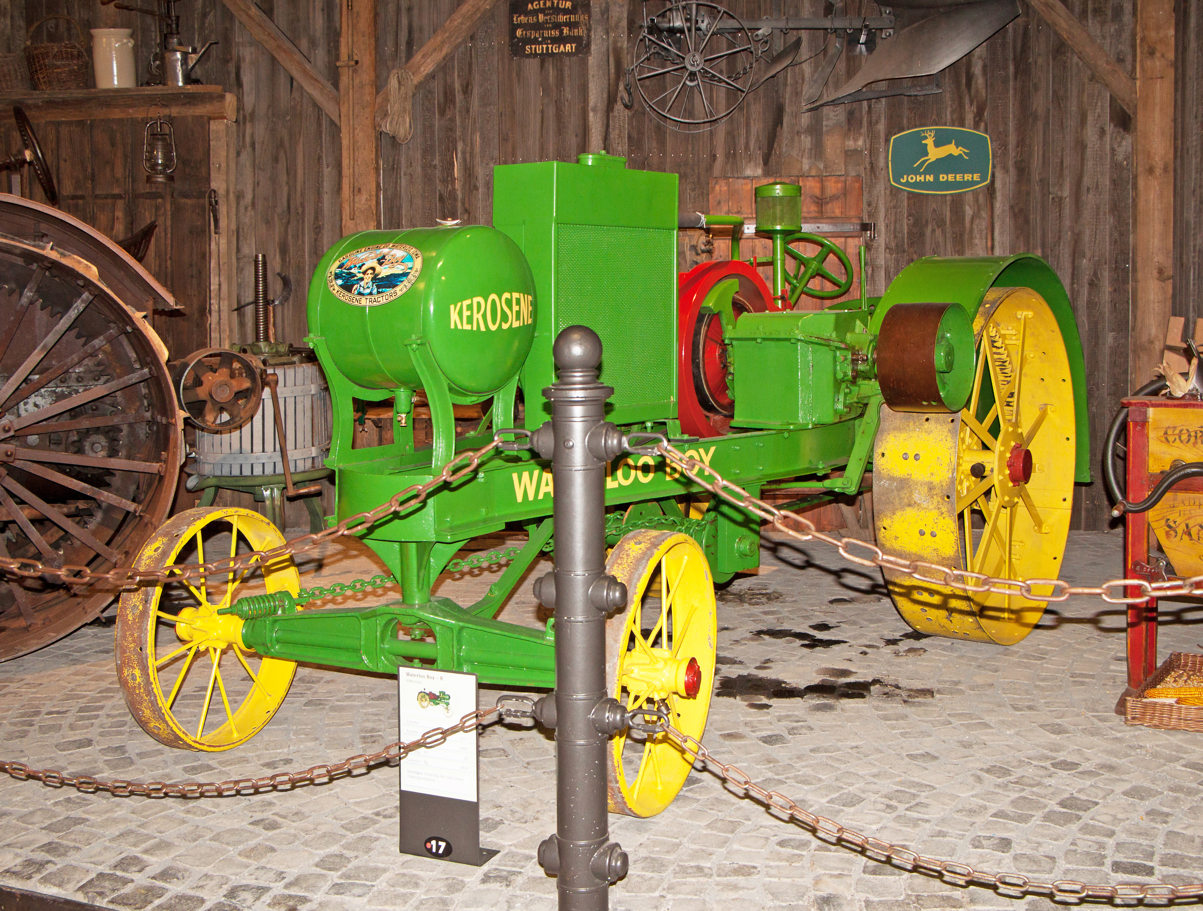 Waterloo Boy Model R, Waterloo Gasoline Engine Company, Waterloo, Iowa, USA, 1917.Cylinder: 2 Engine displacement: 6486 ccmHP:25Weight: 2814 kgTraktormuseum Bodensee, Gebhardsweiler, Uhldingen-Mühlhofen,Germany